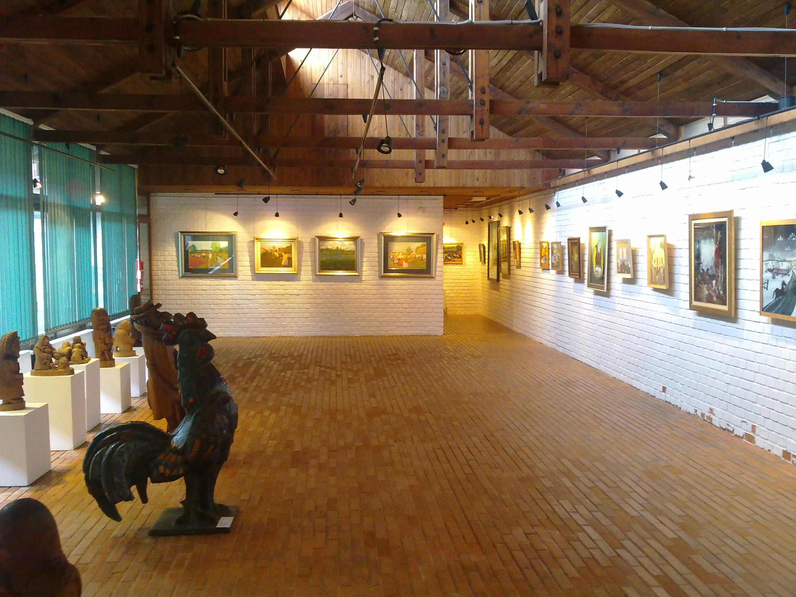 Museum Hlebine